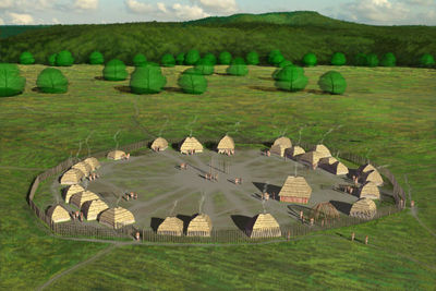 Artists conception of the"SunWatch Indian", also known as the Incinerator Site (33-MY-57), a Fort Ancient culture Native American village located next to the Great Miami River in modern Dayton, Ohio. The circular village consisted of a number of wattle and daub houses and was surrounded by a defensive palisades. It was occupied for about 20 years in the 13th century, with a total population of about 250. Digital illustration, all rights held by the artist, Herb Roe © 2018.